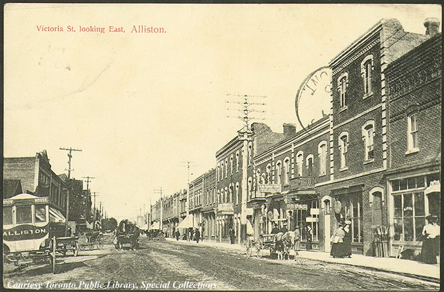 Victoria Street, looking east, Alliston, Ontario, Canada Creator: Unknown Date: 1910 Identifier: PC-ON 30 Format: Postcard Rights: Public domain Courtesy: Toronto Public Library You can order order a print or high-resolution copy.